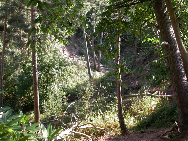 Branksome Dene Chine The third of the chines between Poole and Bournemouth, and Poole's easternmost; declared a local nature reserve in 2004. Work is in hand to clear non-native shrubs, to restore it to its original state. As seen from the top.